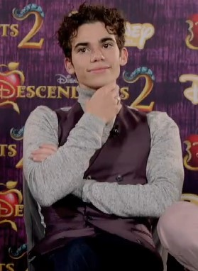 Cameron Boyce in 2017